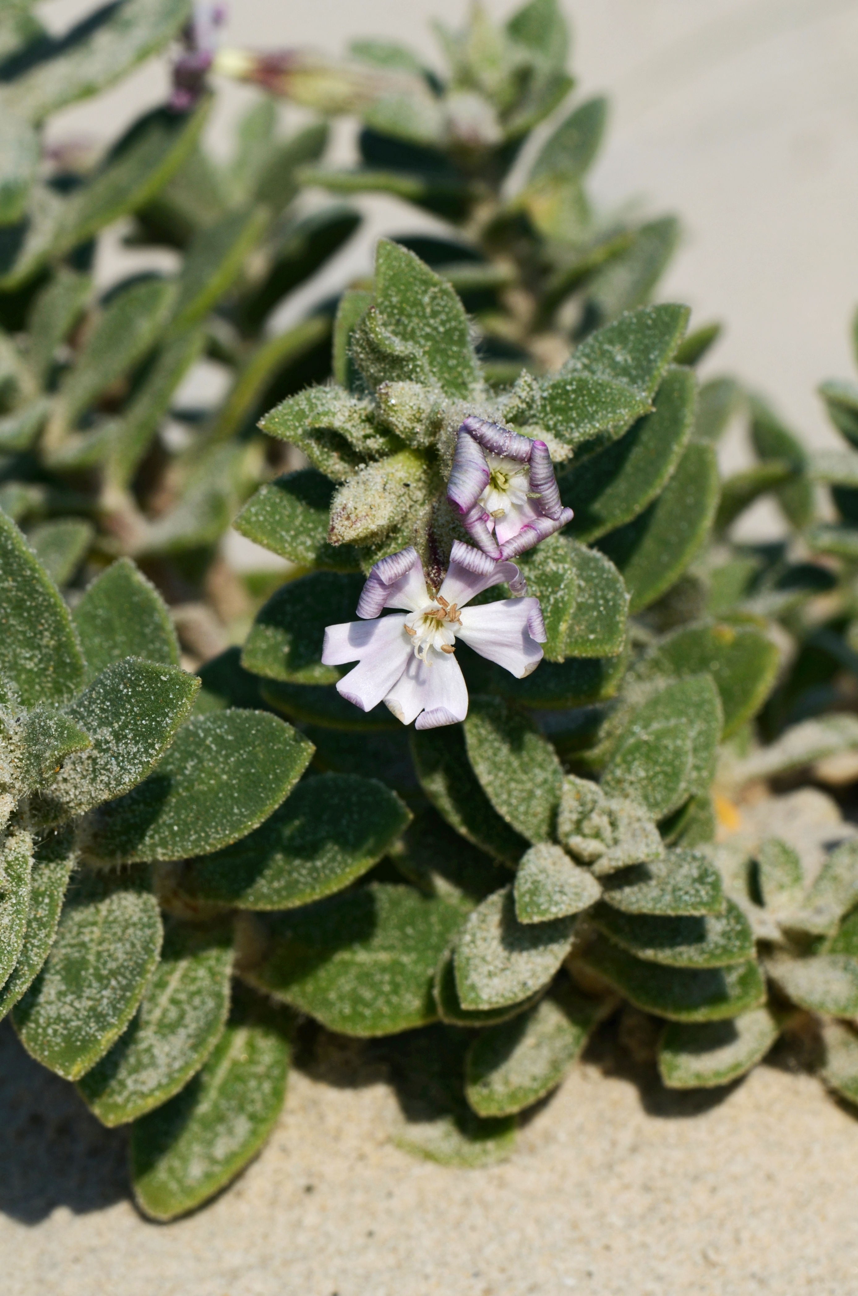 Silene Succulenta Forssk., Dor-Habonim Beach, Israel, February 26, 2012.